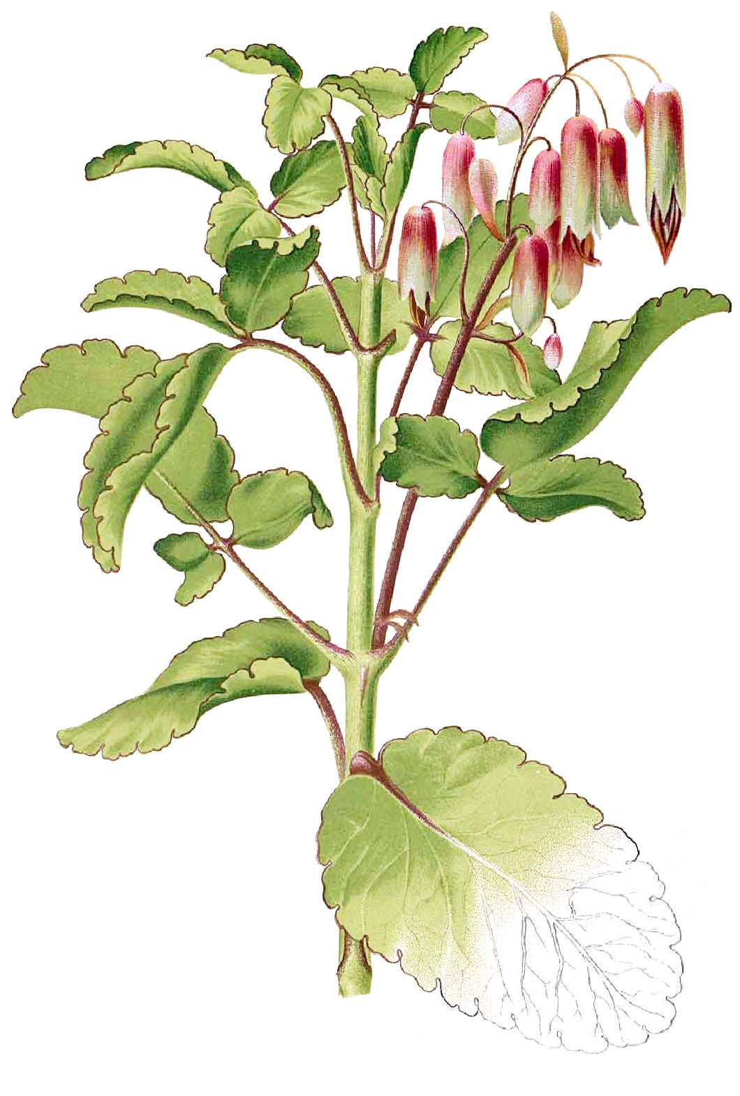 Plate from book Kalanchoe pinnata